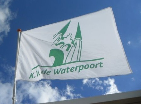 Clubflag De Waterpoort, Sneek.